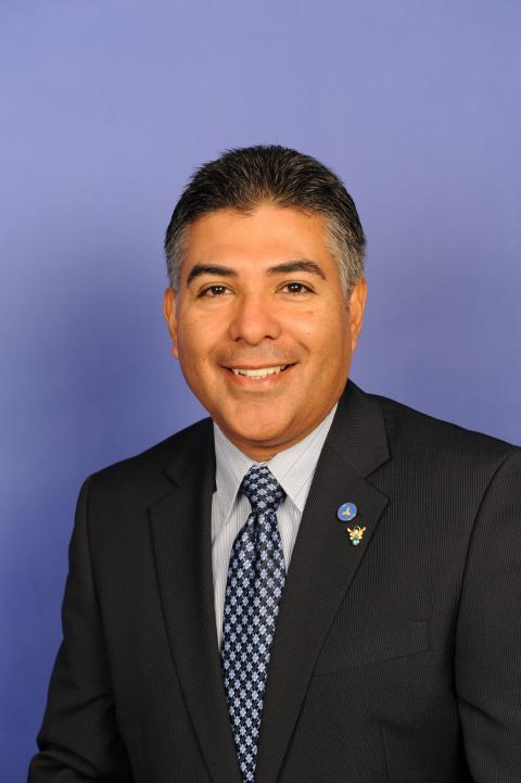 Congressman Tony Cardenas